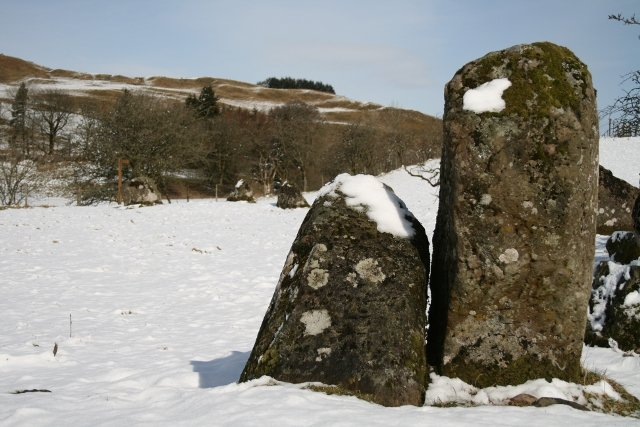 Girdle Stanes The Girdle Stanes form a horseshoe shape - perhaps originally circular but the River White Esk has worn away at one side.